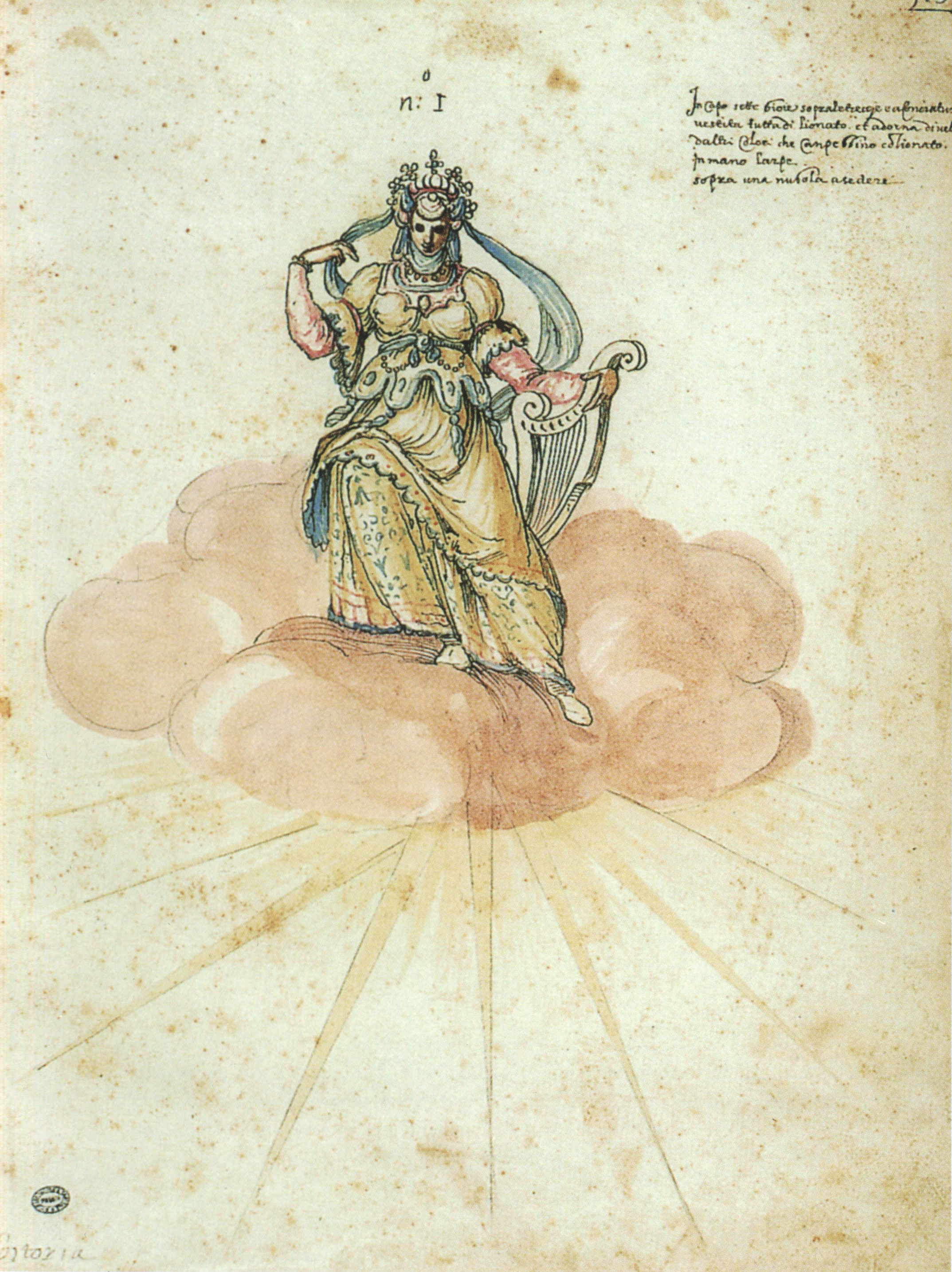 La pellegrina 1589 - Intermedio 1 - L’armonia delle sfere - L’armonia